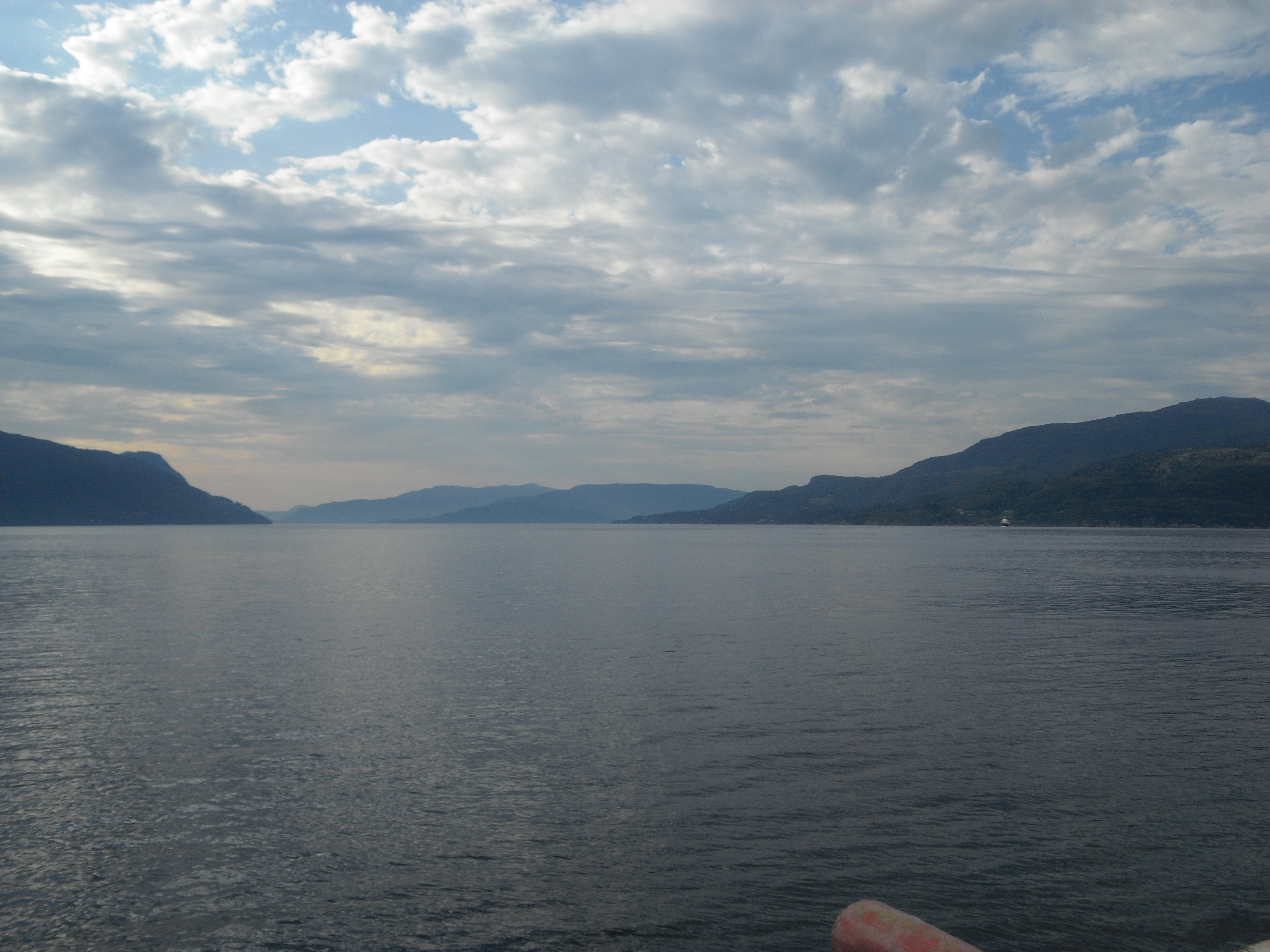 Ombofjorden, a fjord in the municipality of Hjelmeland in Norway.